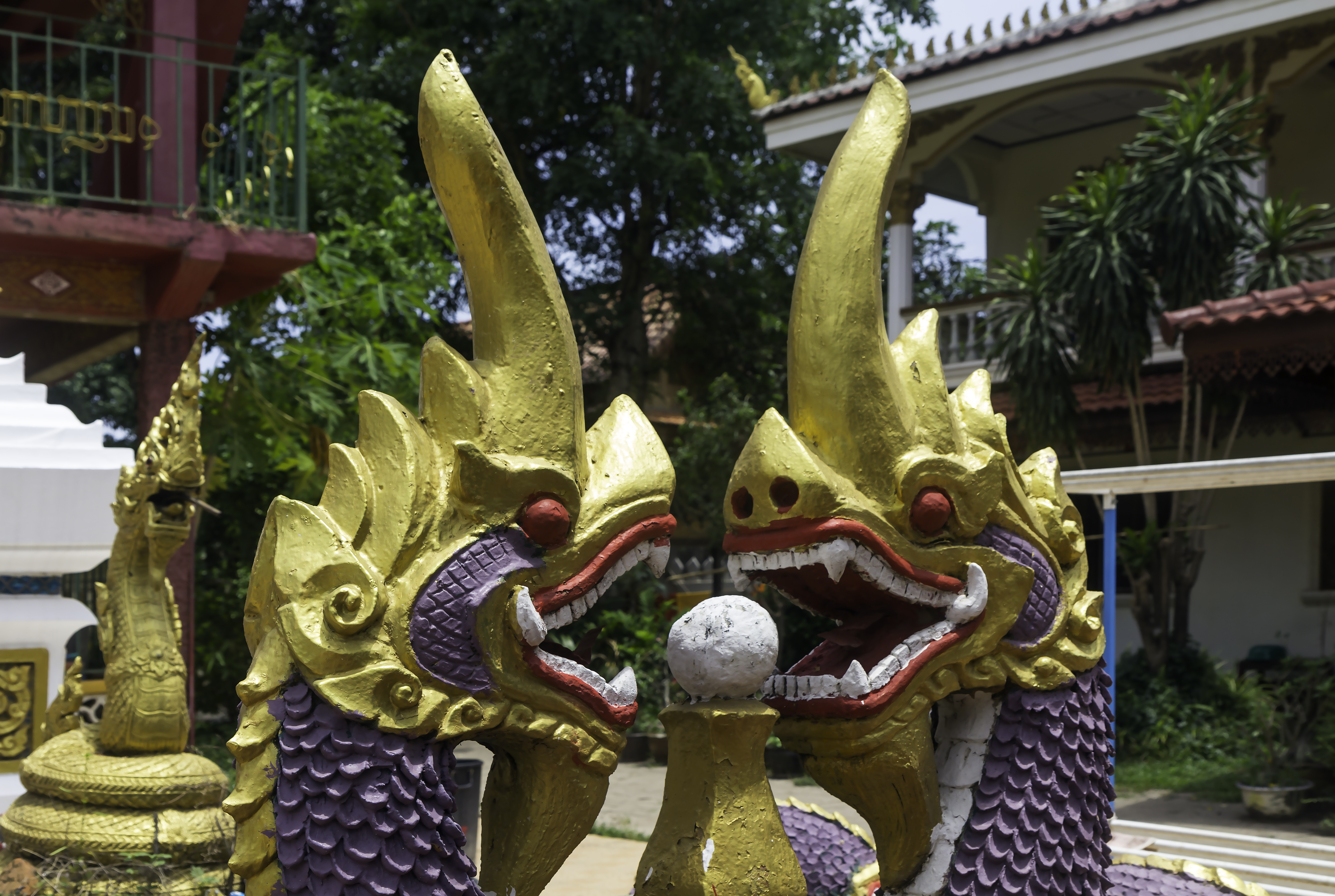 Heads of Nāgas at Wat Chan, Vientiane, Laos